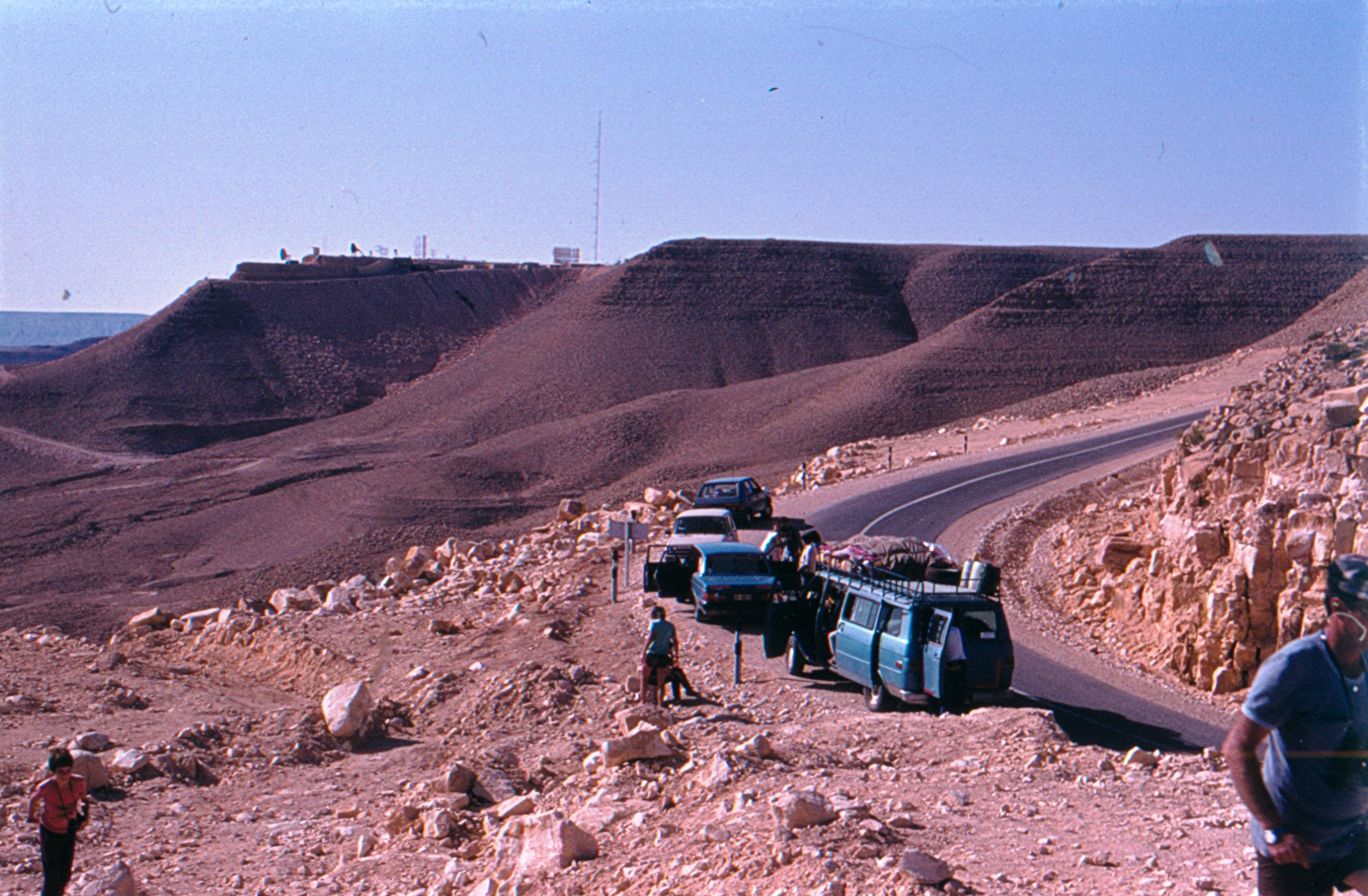 Hanegev_near_Nizana